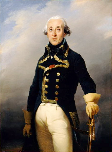 Portrait in uniform of Commander in Chief of the Army of the Midi in 1792